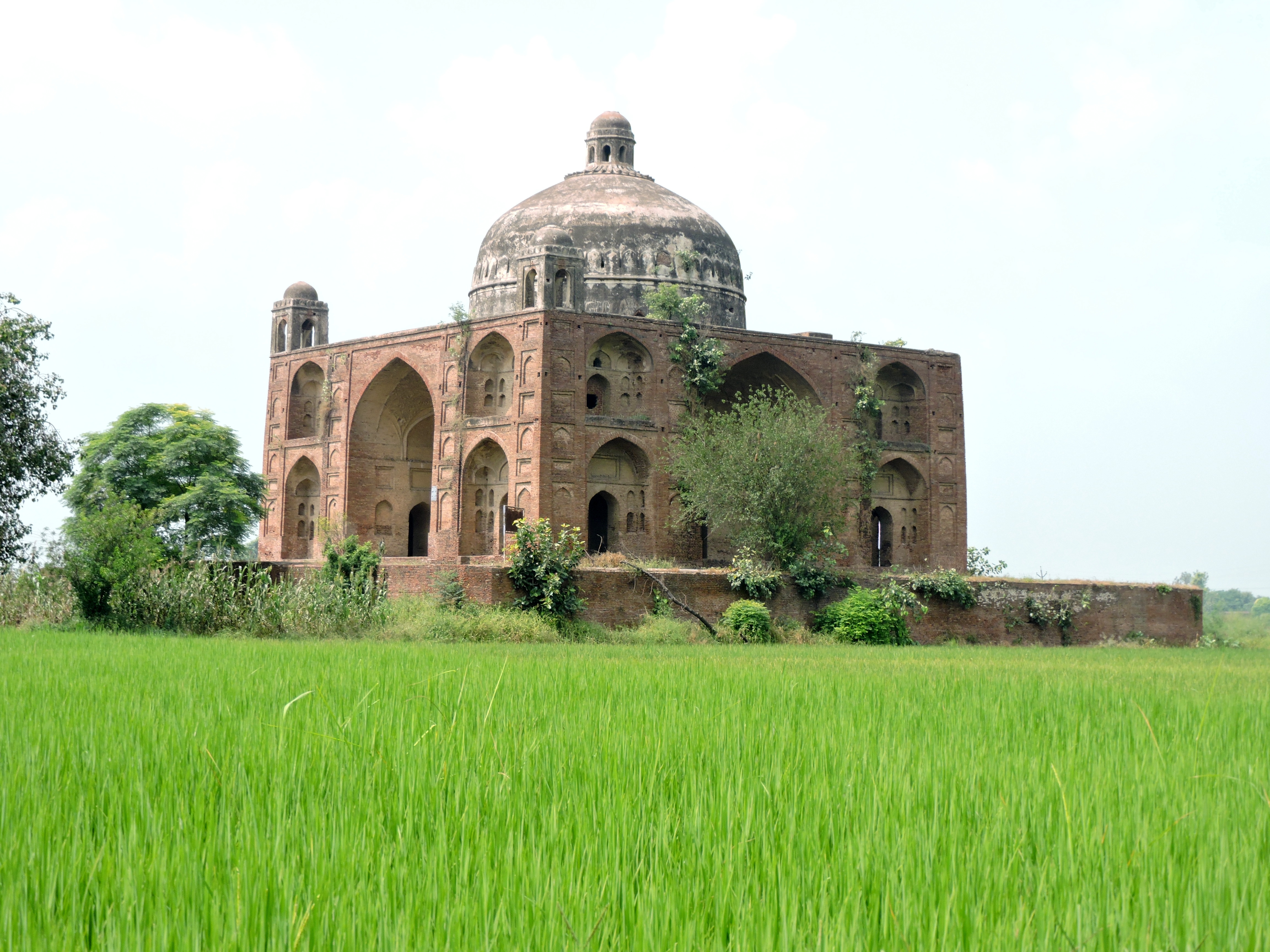 Tomb of Ustad vill Talania Sirhind,Punjab India